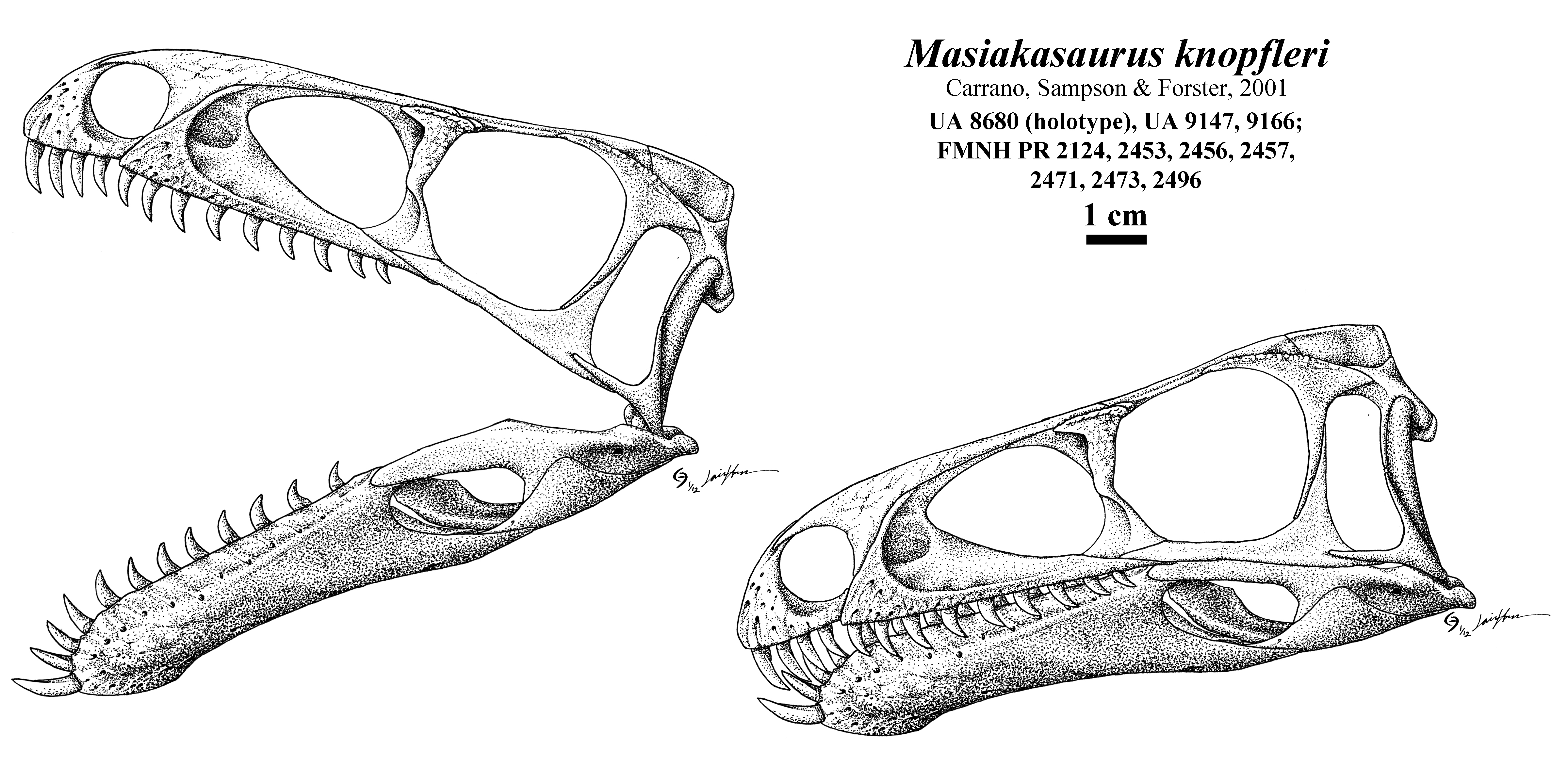 Skull reconstruction of Masiakasaurus knopfleri based on a combination of multiple specimens.